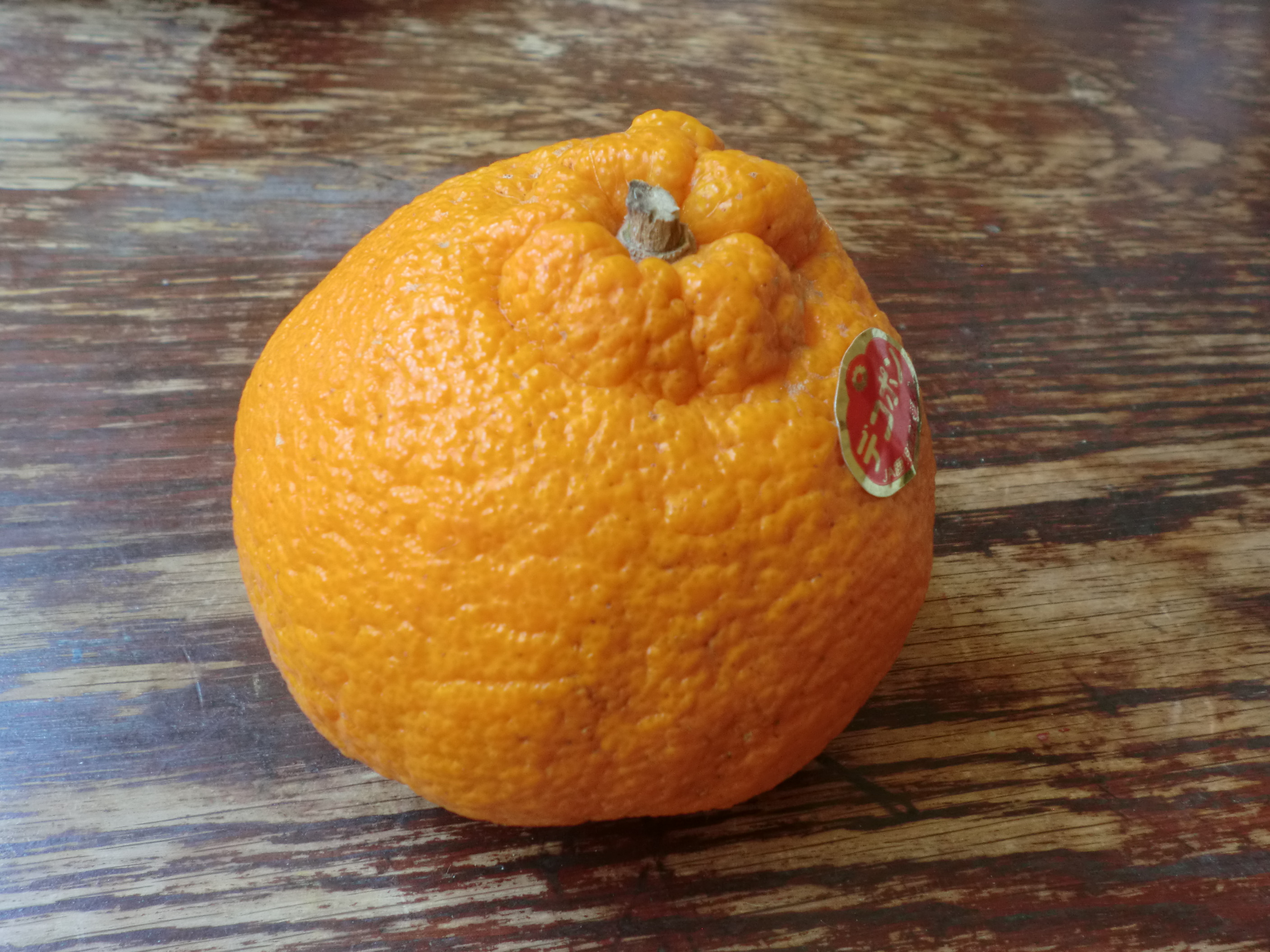 Daimasaki (kind of tangor), born in Kagoshima,Japan.